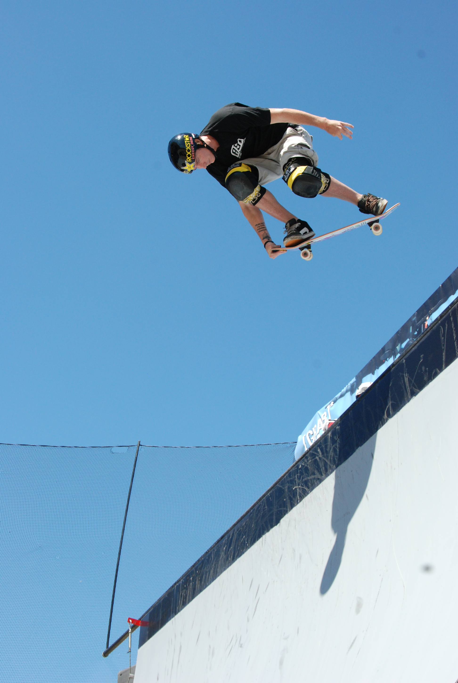 JOINT BASE ANDREWS, Md.-- Anthony Furlong,a team skateboarder for ASA Entertainment, performs an aerial maneuver at the Joint Service Open House here May 15. Mr. Furlong joins other extreme athletes in supporting the Air Force Reserve recruiting campaign, "Grab Some Air," which aims at attracting an active demographic of 17 to 34-year-olds to the Reserve. The JSOH allows members of the public an excellent opportunity to meet and interact with the men and women of the Armed Forces and to show them America’s skilled military. (U.S. Air Force photo/Capt. Rebecca Garcia)